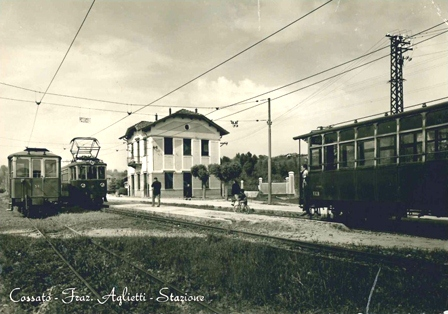 Cossato, railway station